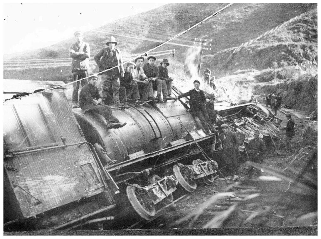 On this day 6 July 1923, 17 people died in a train crash at Ōngarue near Taumarunui. This stands today as the country’s third most deadly rail disaster. The worst in terms of loss of life was the 1953 Tangiwai Disaster which killed 151 people. Ten years before 21 people died in a crash at Hyde. The southbound Auckland to Wellington train was actually travelling very slowly when it ploughed into a slip on a blind corner one early morning at Ōngarue. The impact was such that some passengers didn’t even get a fright. Those in three wooden carriages which telescoped into one another were not so fortunate. Detective John Walsh who was travelling in one of the unharmed carriages did not think there was a problem until a call went out for doctors, and even then he alighted expecting to find people with minor wounds. Instead he found a scene of carnage with some carriages completely derailed, and gas seeping into those that had telescoped. The rescuers later found themselves under attack for irreverent treatment of the dead. There were also reports of civilians roaming round freely searching the bodies. Police and doctors hotly denied these charges. They said their immediate focus was on the living not the dead, so some bodies weren’t attended to immediately. They categorically denied the charge regarding civilians. Shown here is the subsequent body recovery operation. AAVK W3493 330 B13836 For more information For updates on our On This Day series and news from Archives New Zealand, follow us on Twitter Material supplied by Archives New Zealand